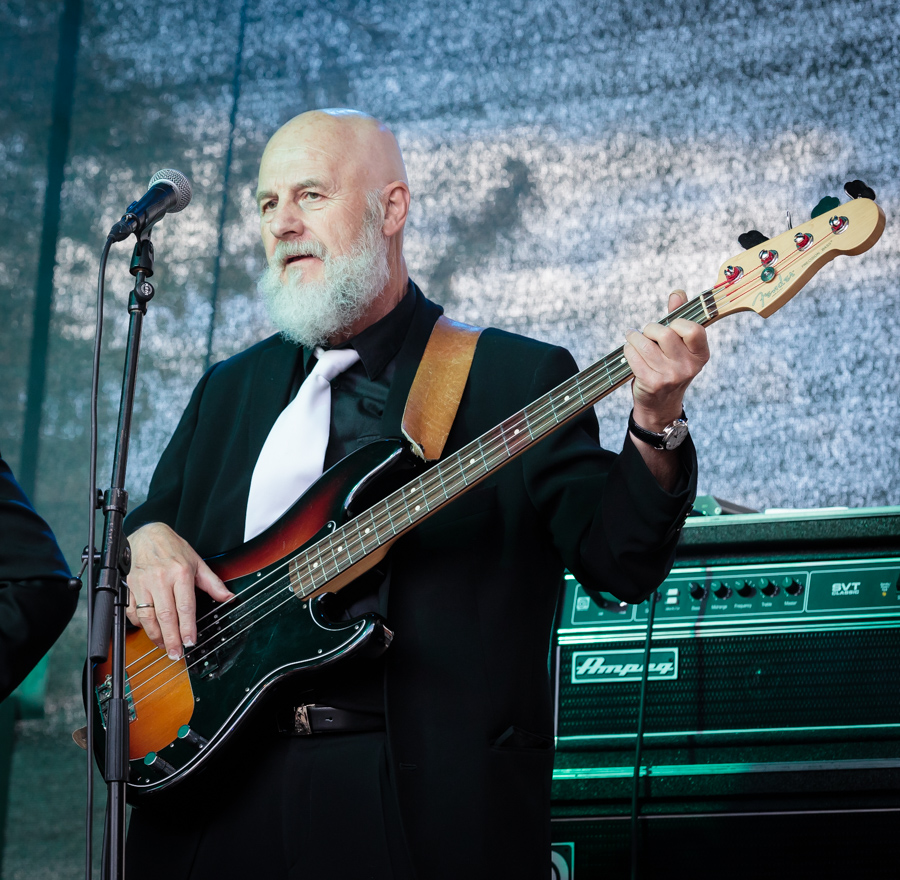 Terje Methi with Vazelina Bilopphøggers at the stage of Gamle Norge. The concert was part of Kongsberg Jazzfestival and took place on 08. July 2017. Lineup: Eldar Vågan (guitar / vocal) Arnulf Paulsen (drums) Jan Einar Johnsen (saxophone) Kjetil Foseid (guitar / vocal) Terje Methi (bass guitar) Tor Welo (keyboard) Even Finsrud (drums)